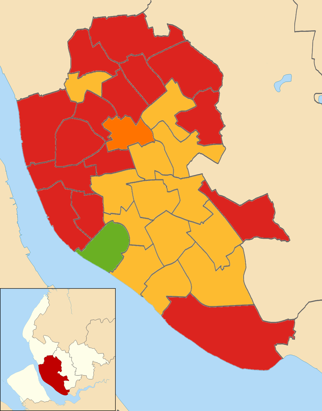 Results of the 2008 local elections in Liverpool Colours: Labour Liberal Democrat Liberal Party Green party of England and Wales